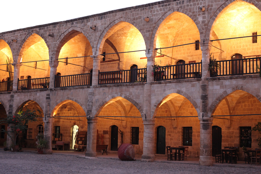 Büyük Han (the Great Inn) was built in 1572 by the first Ottoman governor of Cyprus, Muzaffer Pasha.